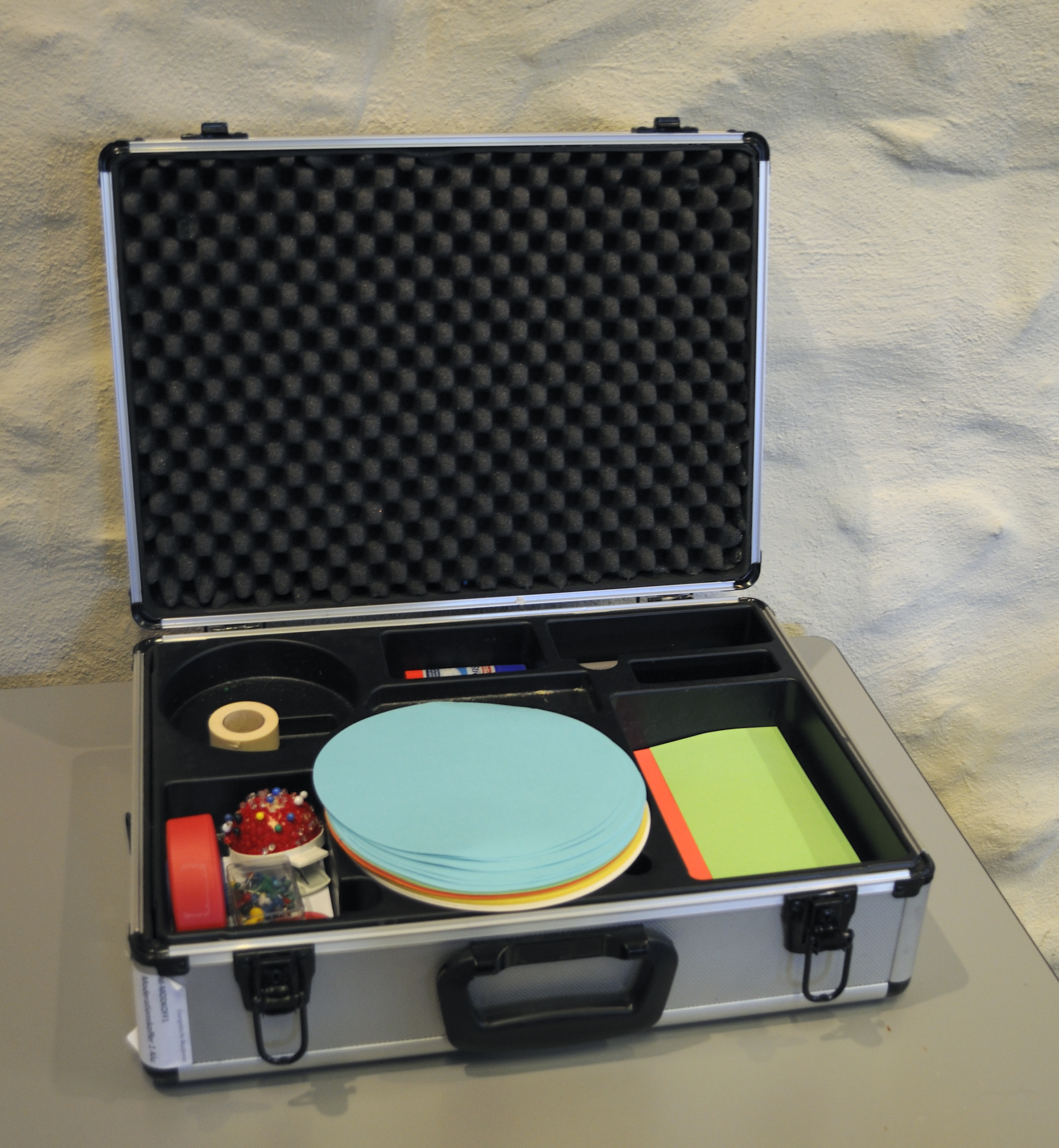 Picture taken in Meissen while dewiki’s mentorship program meetup. Albrechtsburg. Material of the protestant academy.